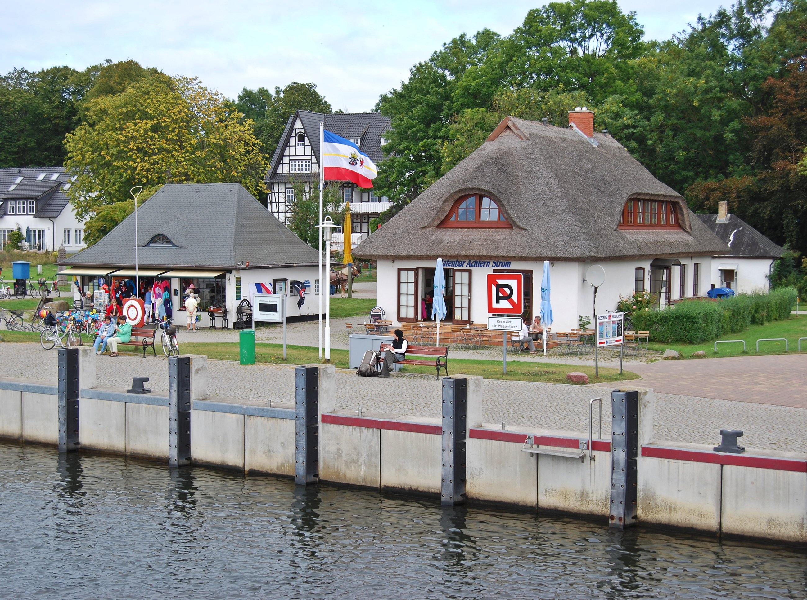 The port of Kloster on the island of Hiddensee, Mecklenburg-Vorpommern.